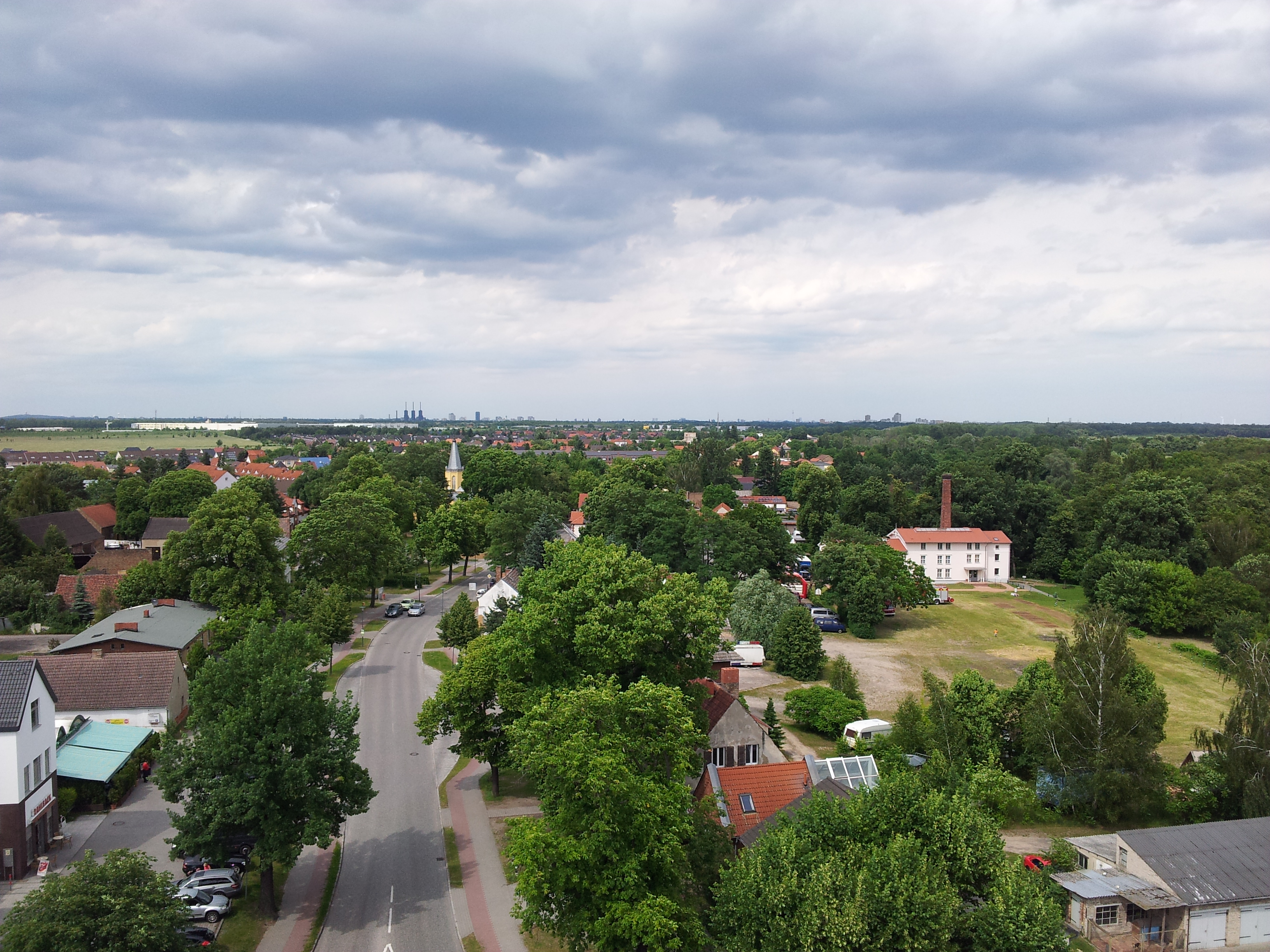 View north towards Berlin from the Großbeeren Memorial Tower, with Großbeeren Church.